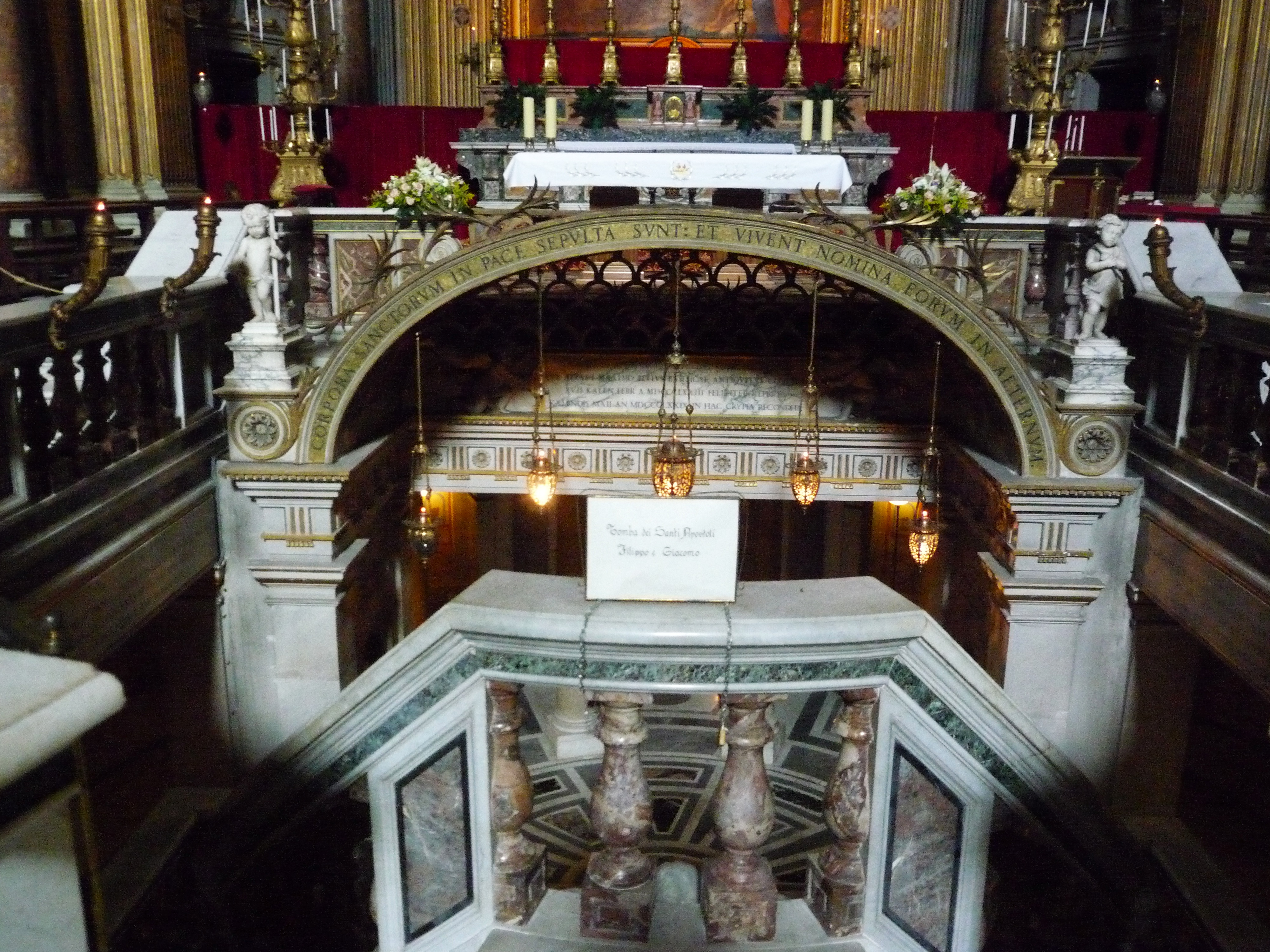 The Church of the Twelve Holy Apostles (minor basilica), Rome